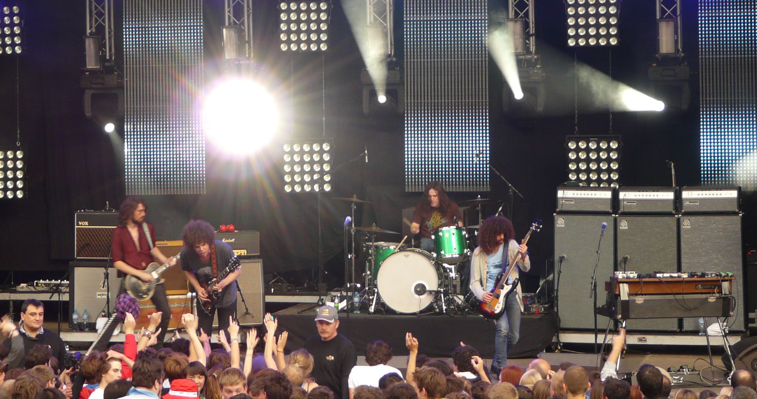 Wolfmother performing on 9th of June 2011 at the Caribana Festiva in Crans-près-Céligny, Vaud, Switzerland.